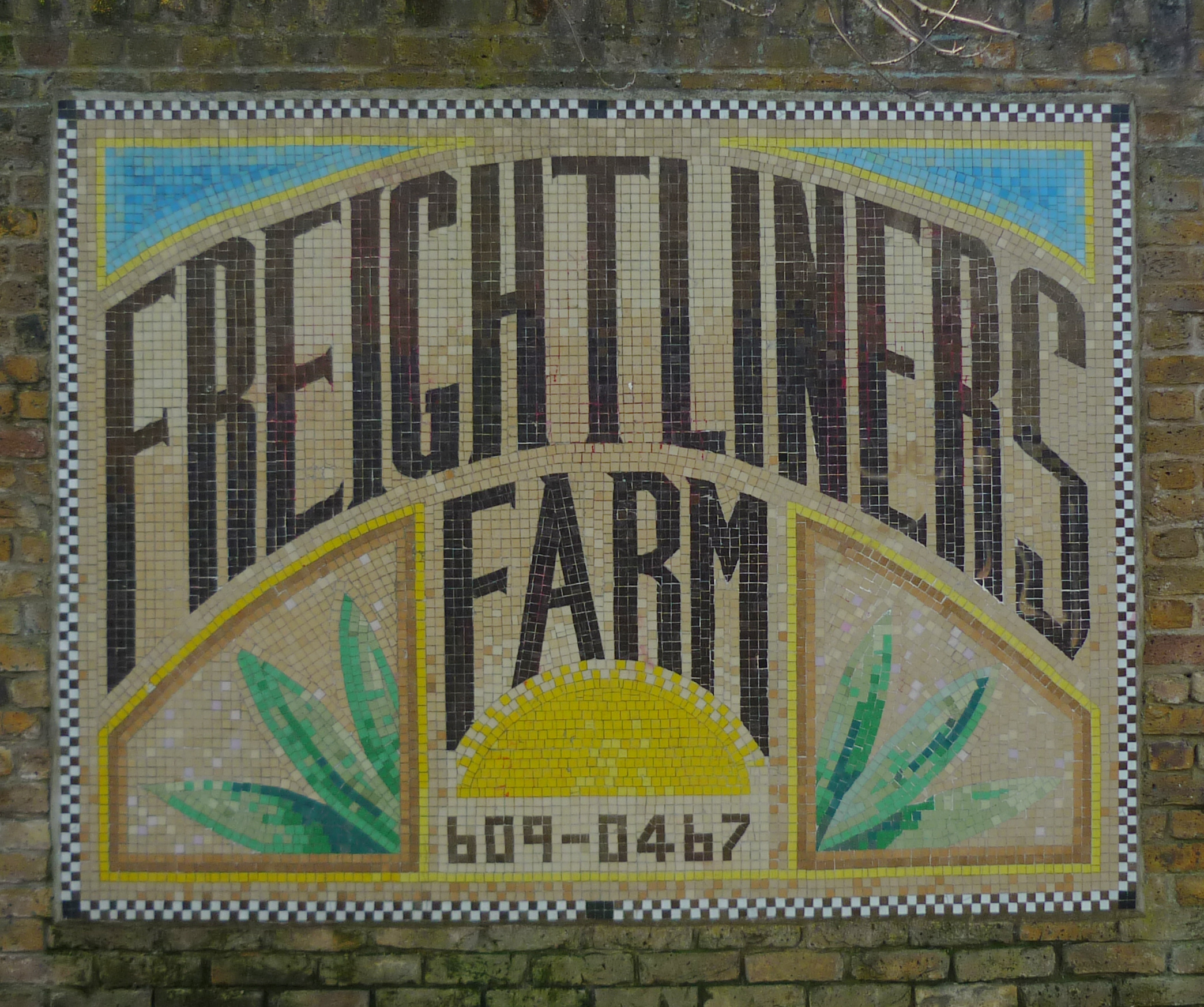 Mosaic, entrance to Freightliners Farm, Sheringham Road, London, N7 For more on this inner city farm visit